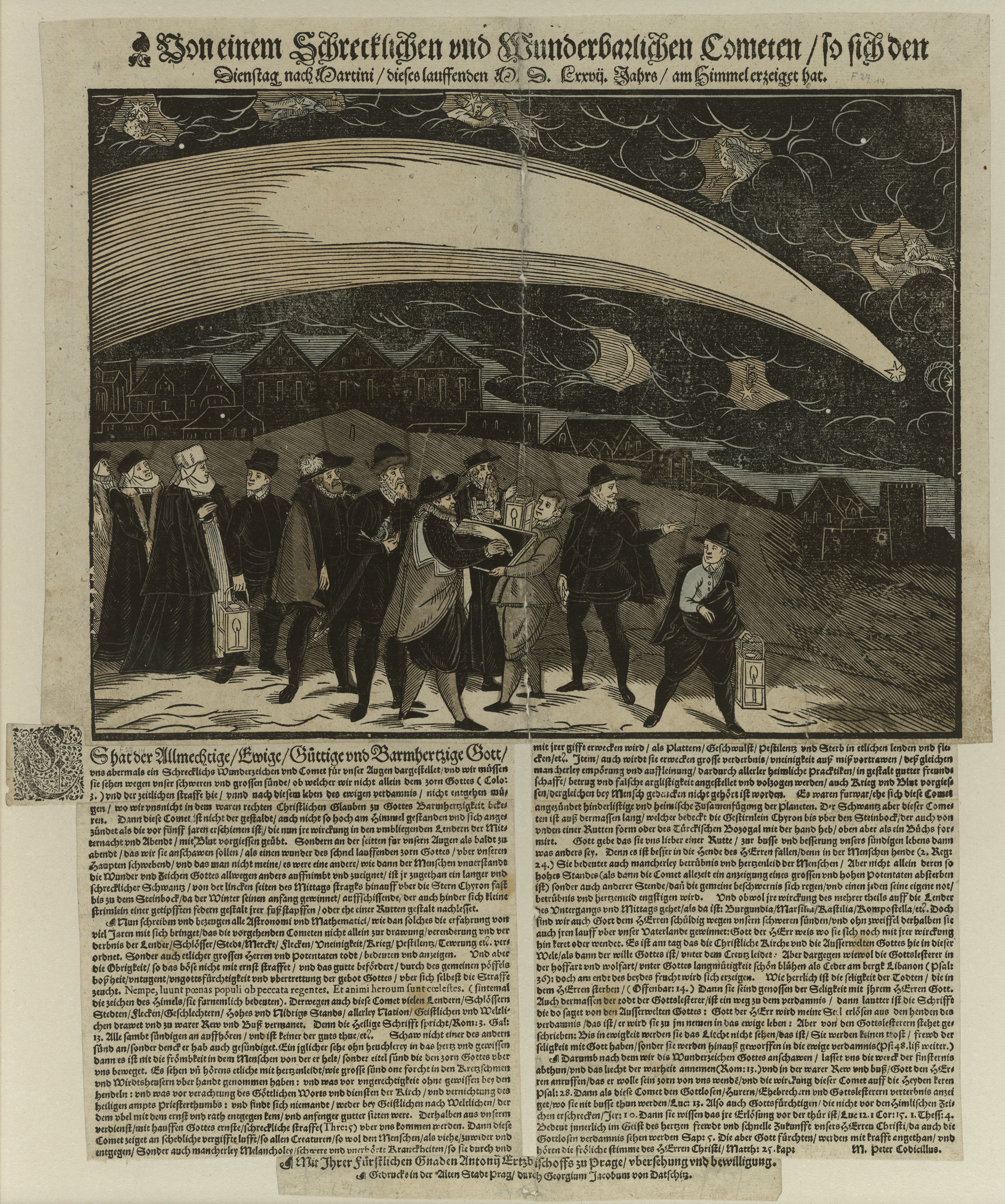 About a terrible and marvelous comet as appeared the Tuesday after St. Martin's Day (1577-11-12) on heaven. (Written by Peter Codicillus of Tulechova)